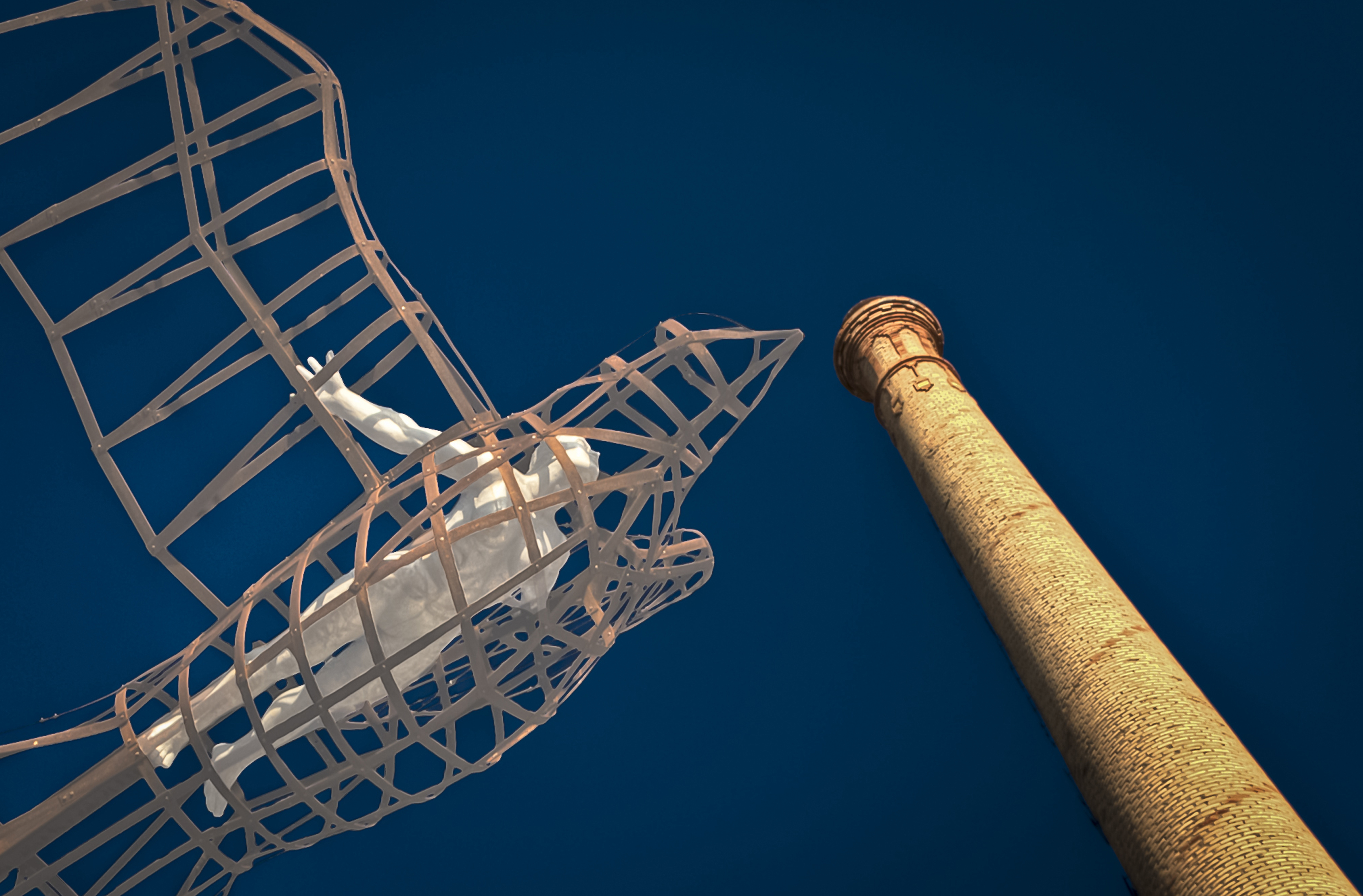 Semiramis